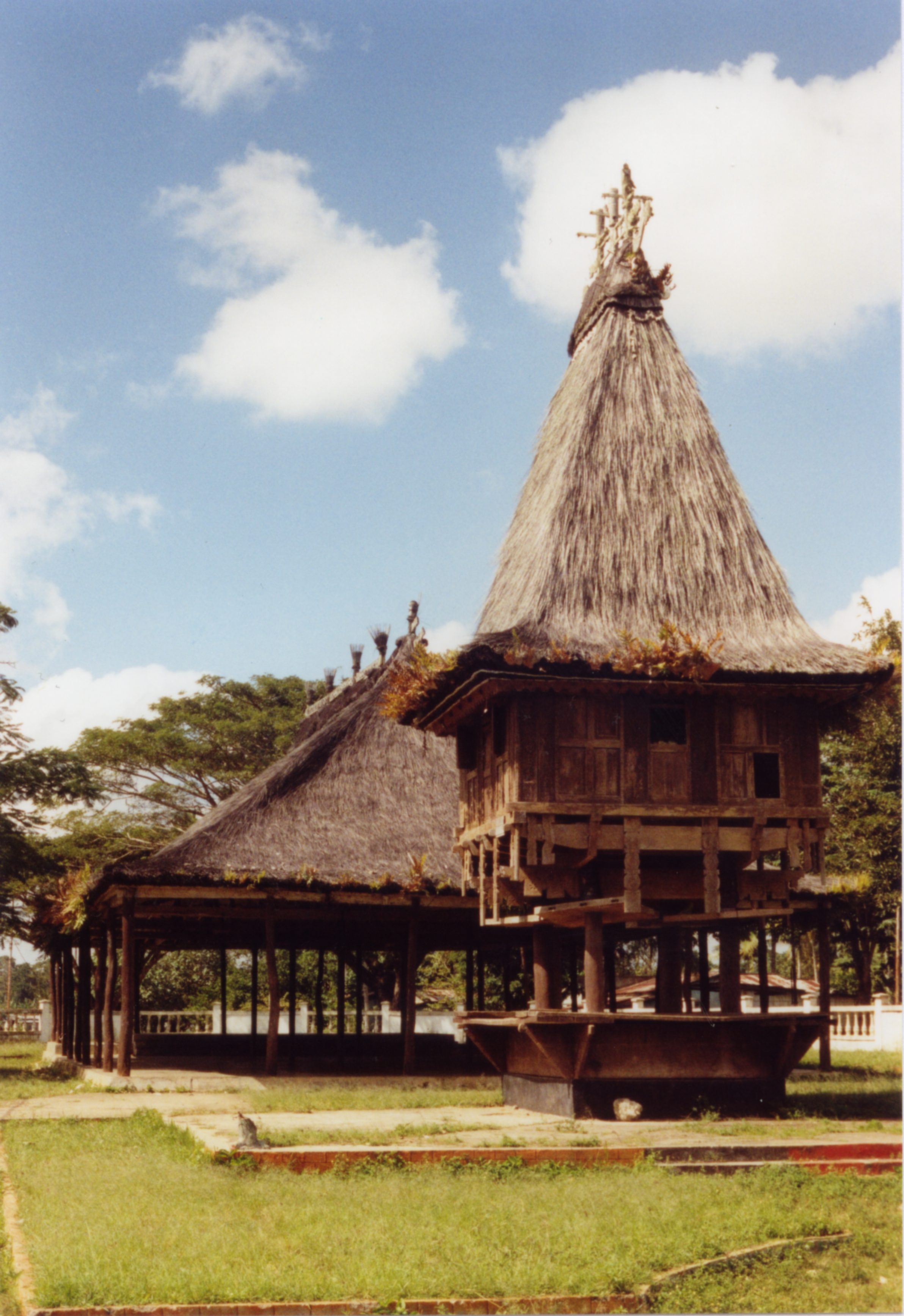 Photo by J. Patrick Fischer Town of Lospalos/Timor-Leste on 24th June 2002